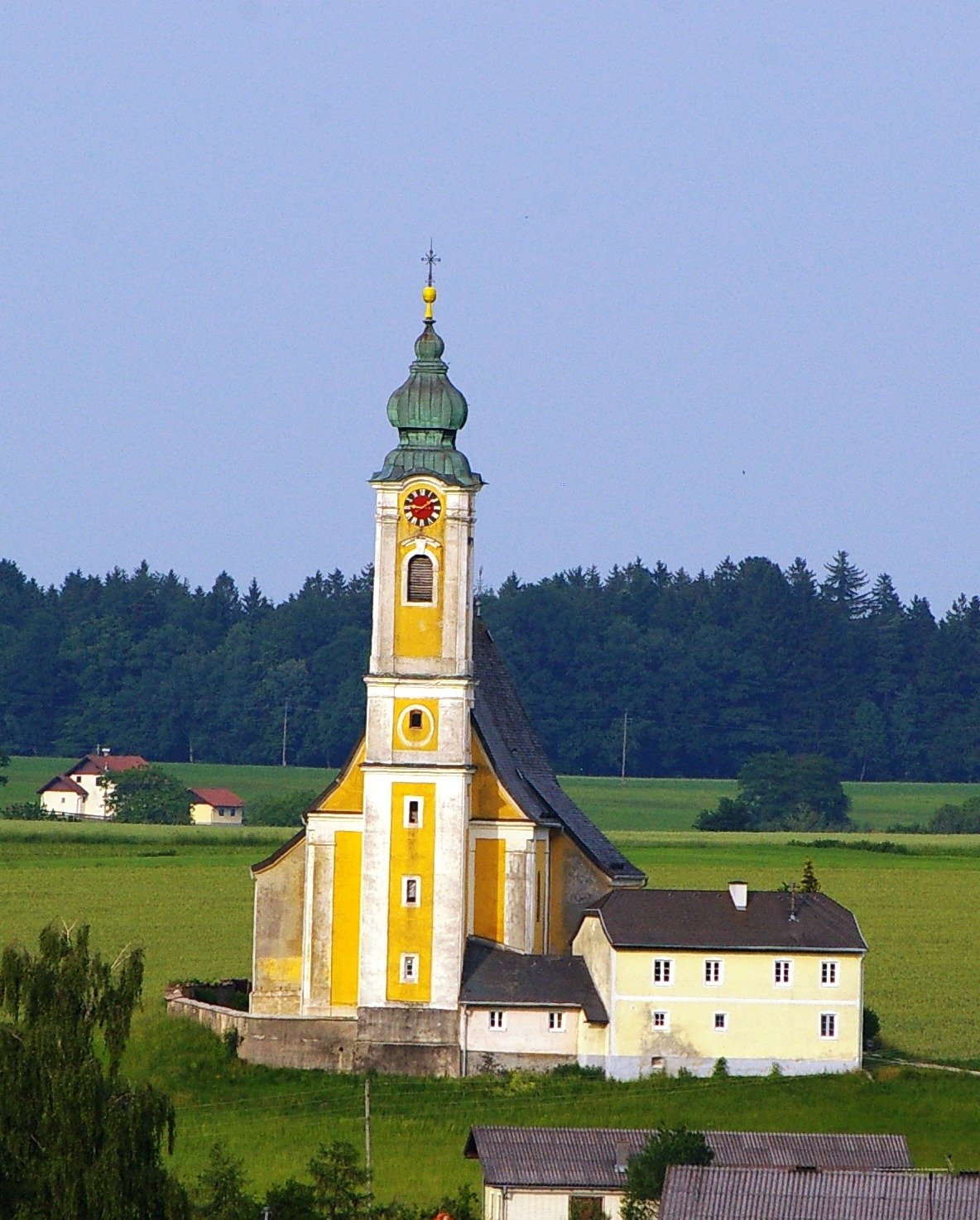 church in Upper Austria